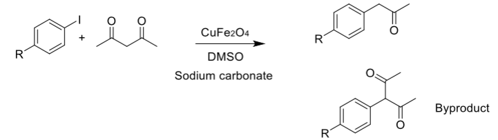 Arylation between acetylacetone with iodobenzene. Adapted from the article - ChemCatChem, 2014. 6(3): p. 815-823